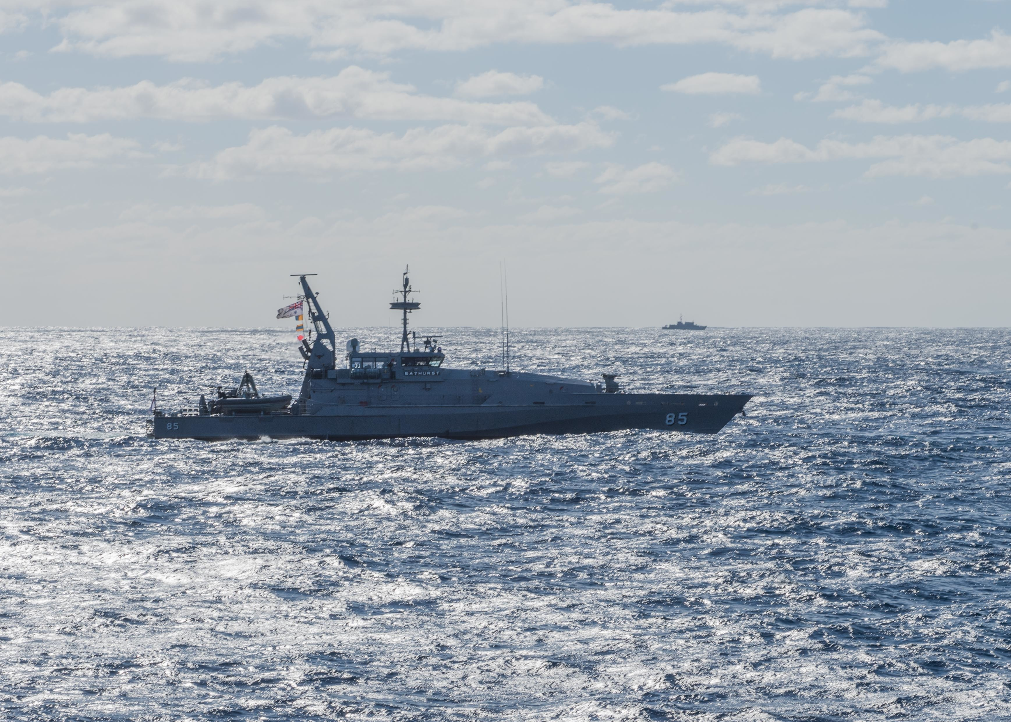 170722-N-UX013-021 CORAL SEA (July 22, 2017) The Royal Australian Navy (RAN) Armidale-class patrol boat HMAS Bathurst (ACPB 85) steams in a 19-ship formation of U.S.-RAN and New Zealand ships at the conclusion of Talisman Saber 2017. Talisman Saber is a biennial U.S.-Australia bilateral exercise held off the coast of Australia meant to achieve interoperability and strengthen the U.S.-Australia alliance. (U.S. Navy photo by Mass Communication Specialist 3rd Class Jonathan Clay/Released)